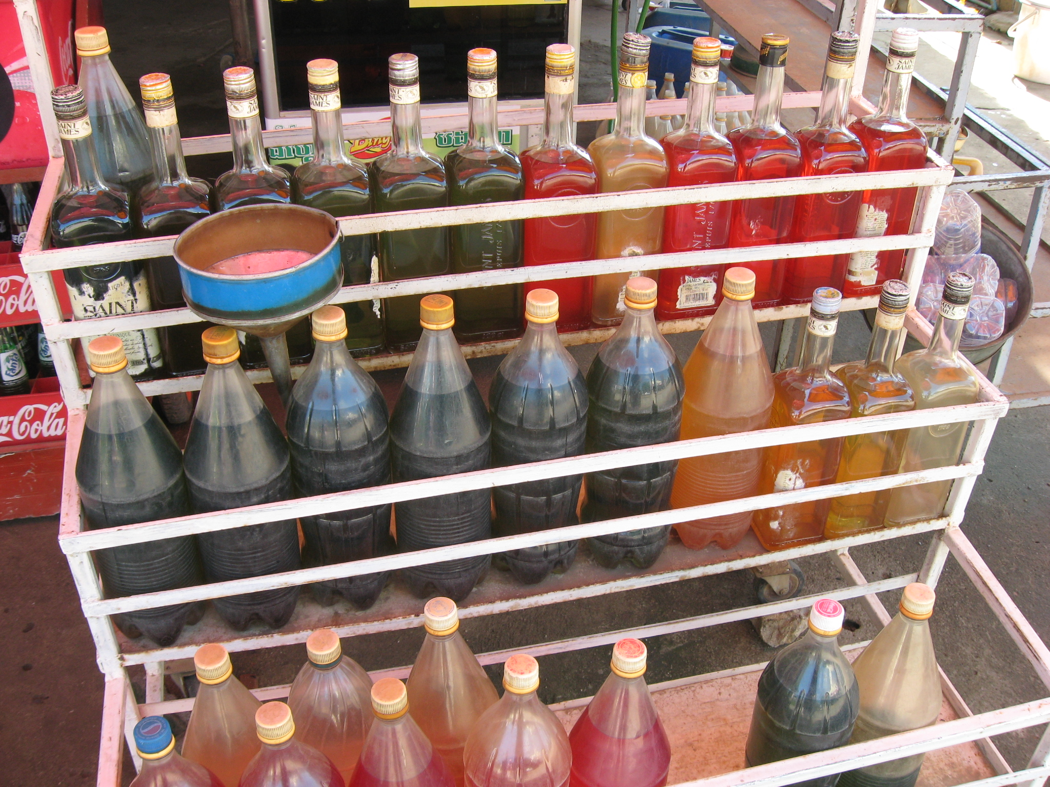 Bottles of gasoline on the roadside in Battambang, Cambodia.